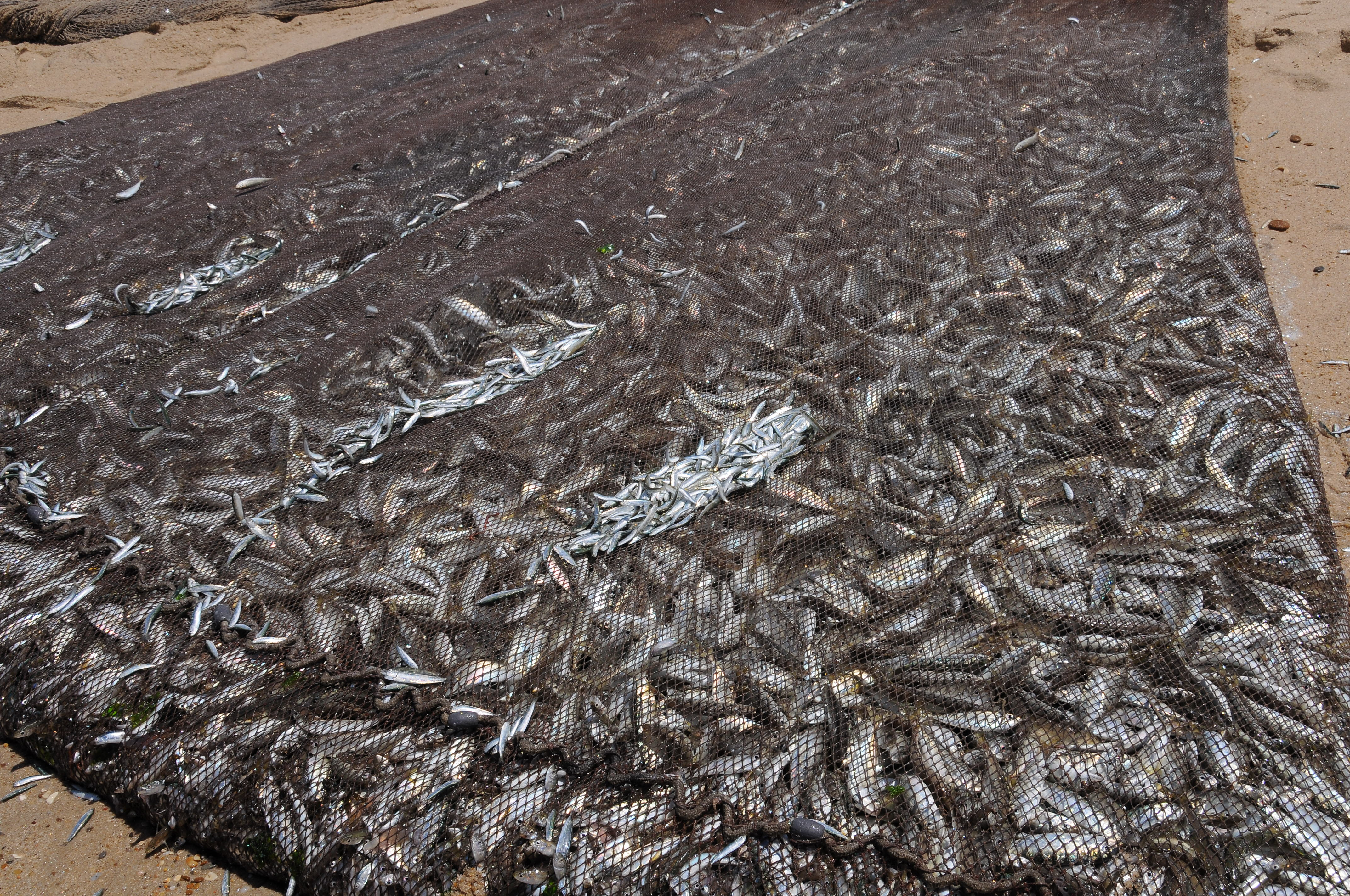 Fish Net in Mira Portugal.